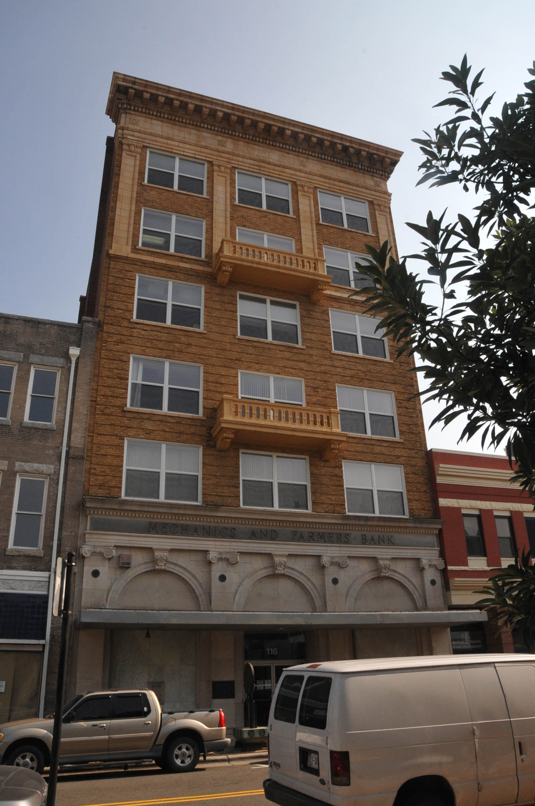 VIEW OF THE BUILDING FROM THE PARK ACROSS THE STREET